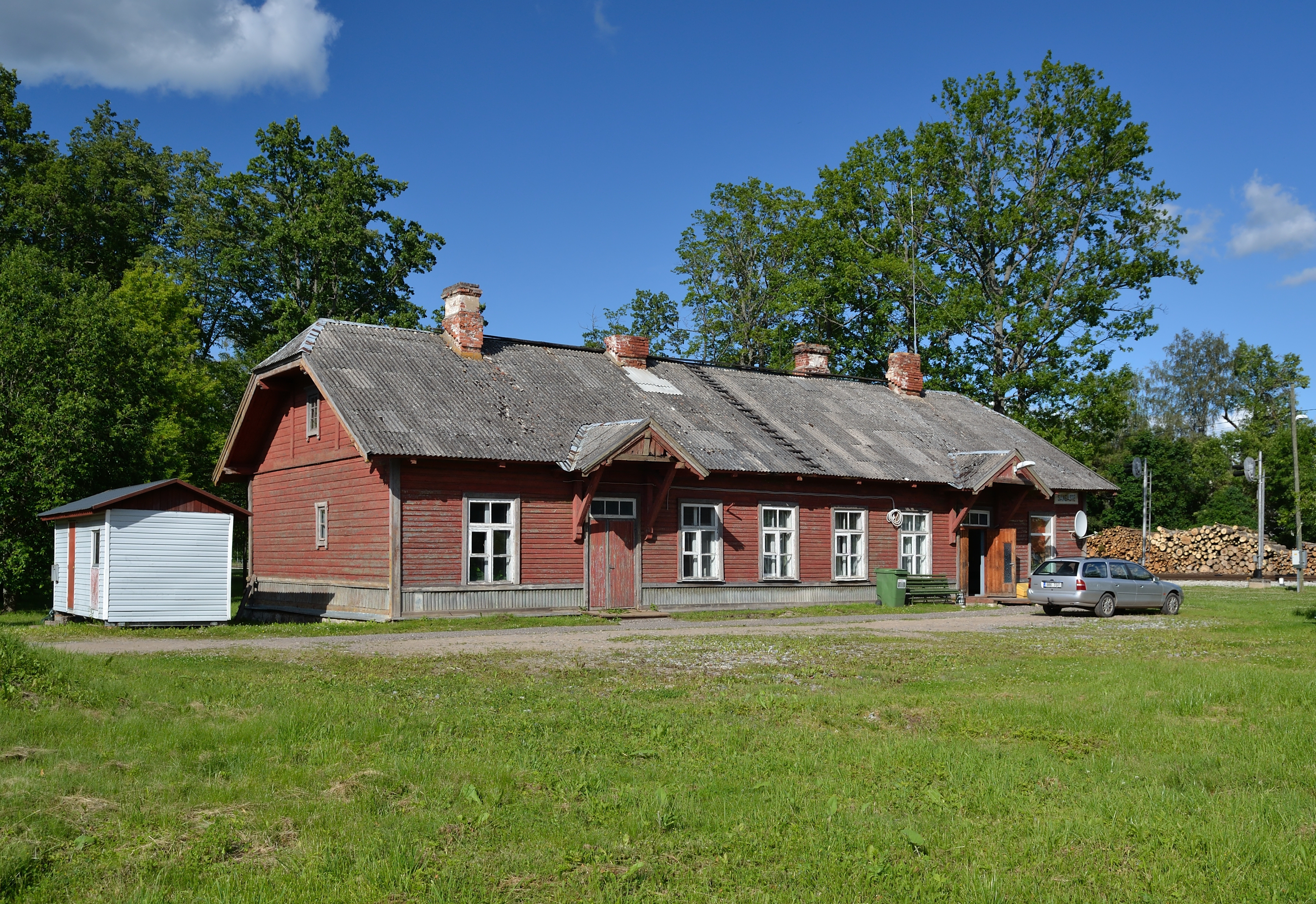 Sangaste station main building, built in turn of 19th-20th century